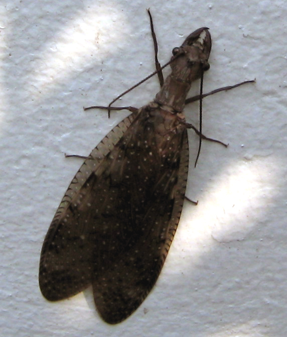 Female Eastern dobsonfly, Corydalis cornutus